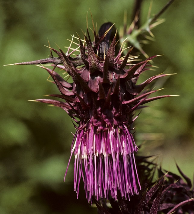 Cirsium vinaceum USFS photo